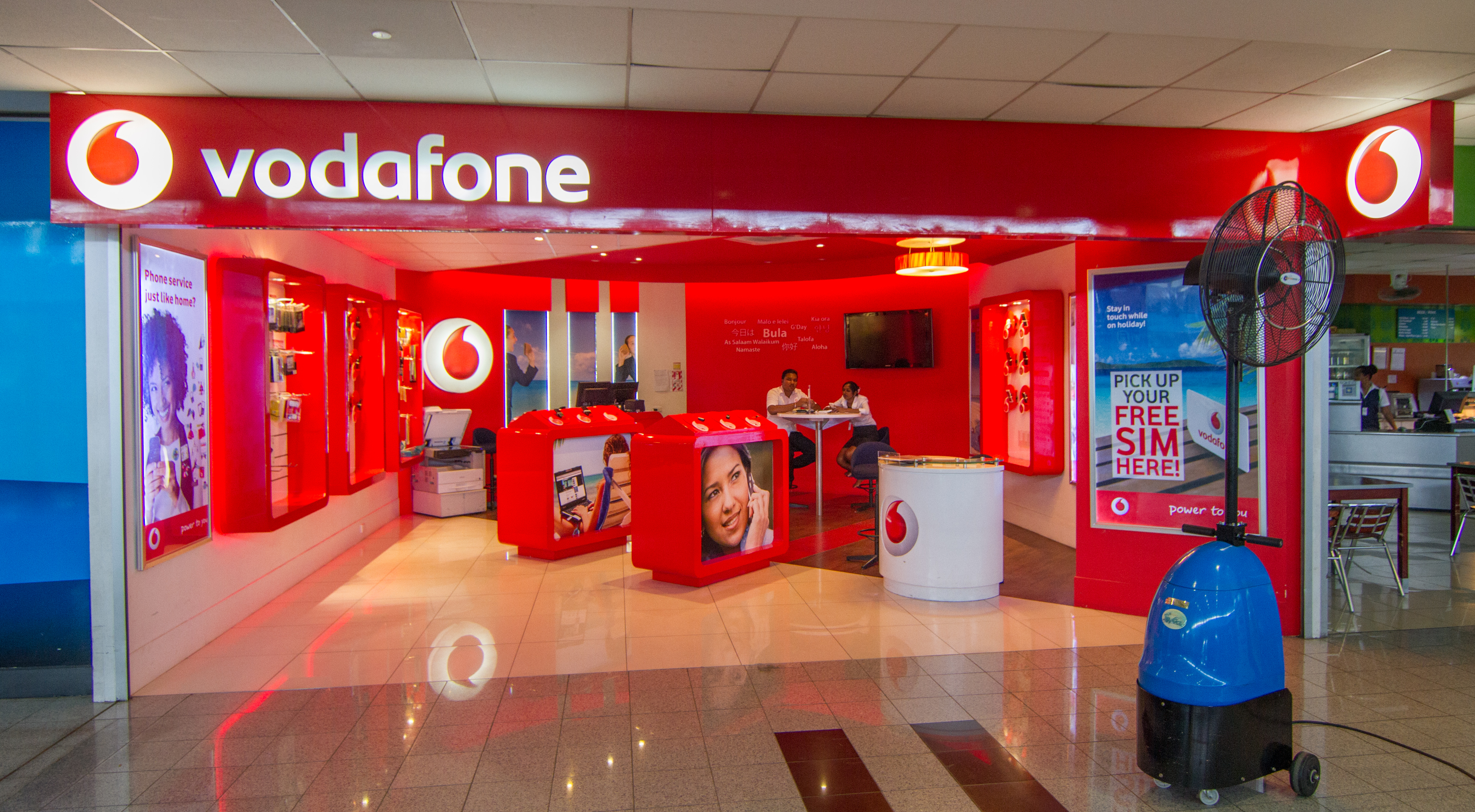 Nadi airport - Vodafone office